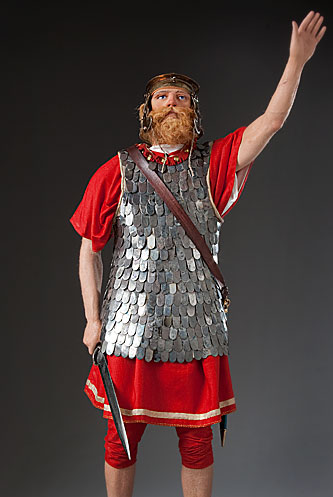 Historical Mixed Media Figure of Arminius produced by artist/historian George S. Stuart and photographed by Peter d'Aprix. This image, from the George S. Stuart Gallery of Historical Figures® archive ( is provided for all uses with appropriate attribution. Any derivatives must be shared in the same manner. Contributor mharrsch is webmaster for the gallery site.